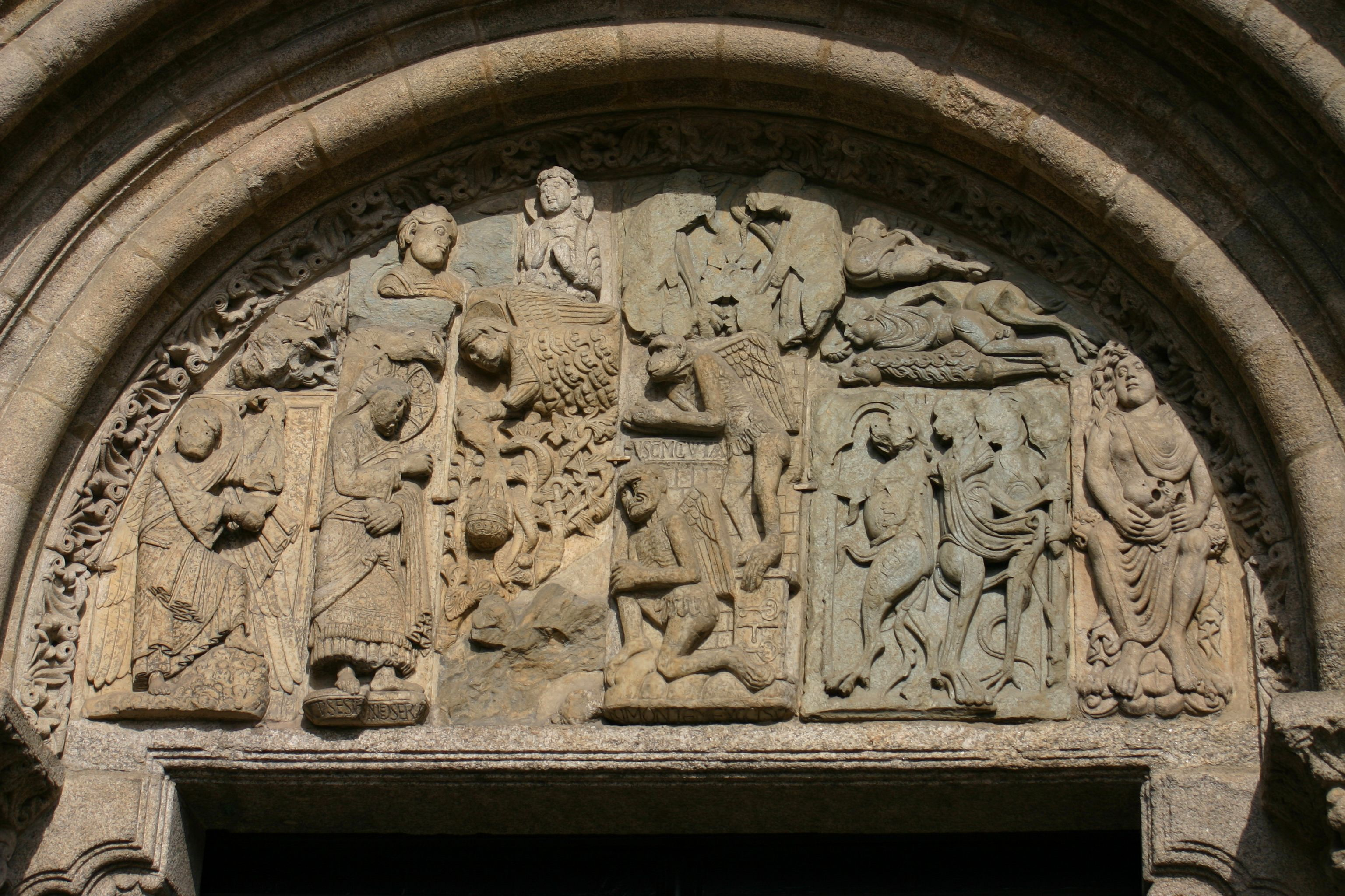 Meridional door detail of the Santiago de Compostella cathedral, Galicia (Spain) Author: User:Yearofthedragon